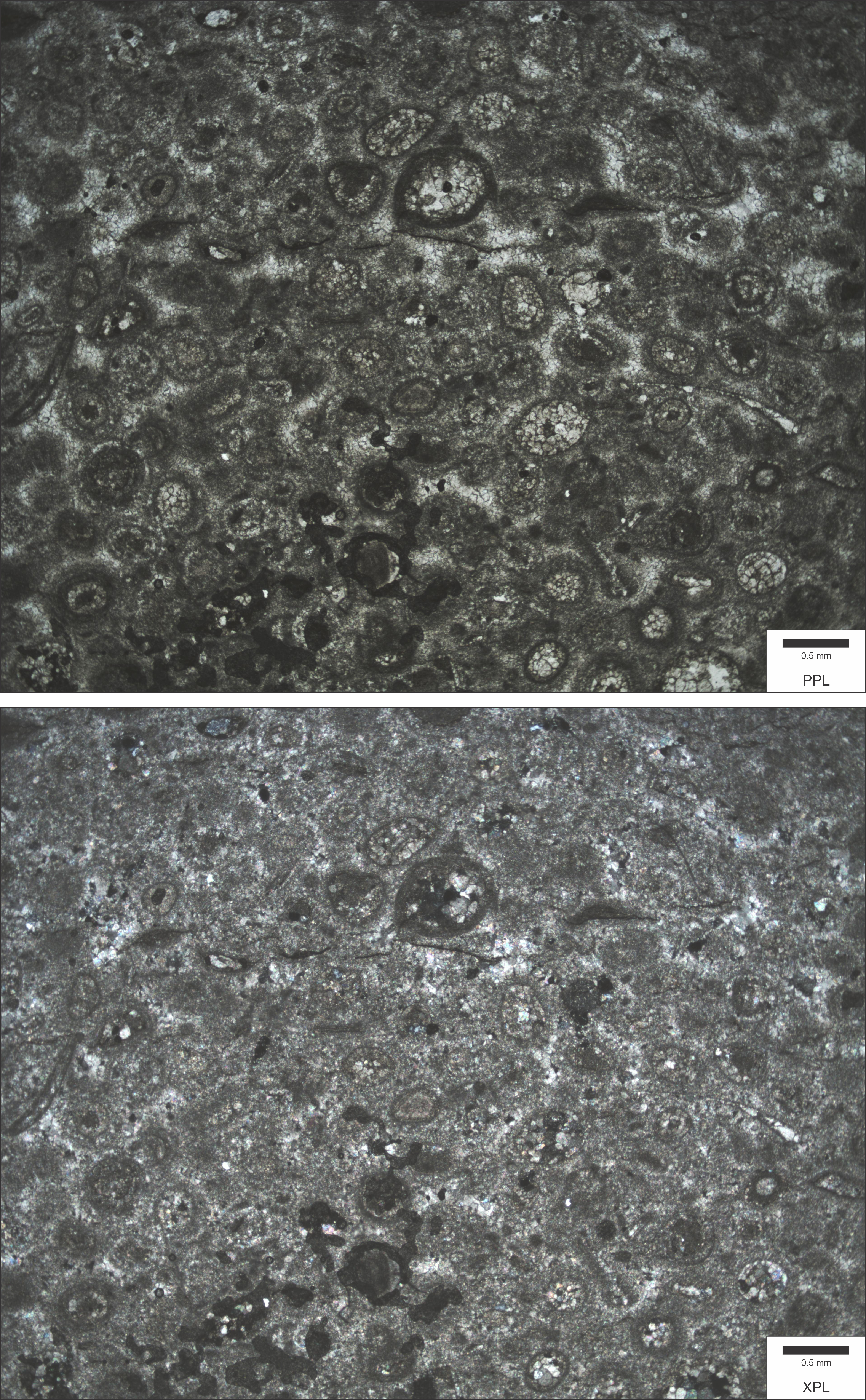 Photomicrograph showing oolitic limestone in plane-polarized light (above) and cross-polarized light (below). This specimen would be classified as an oomicrite using in the Folk (1964) classification scheme.